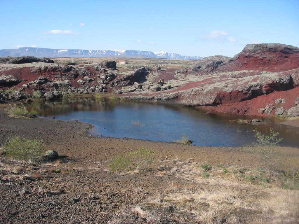 Rauðhólar (icelandic Red hills) - remnants of a cluster of pseudocraters in Elliðaárhraun lava fields on the south-eastern outskirts of Reykjavík, Iceland. The age of Rauðhólar is about 4600 years. Originally there were over 80 craters but the gravel from them was taken and used in constructions. Most of the material was taken around World War II for constructions such as Reykjavík airport and road building.